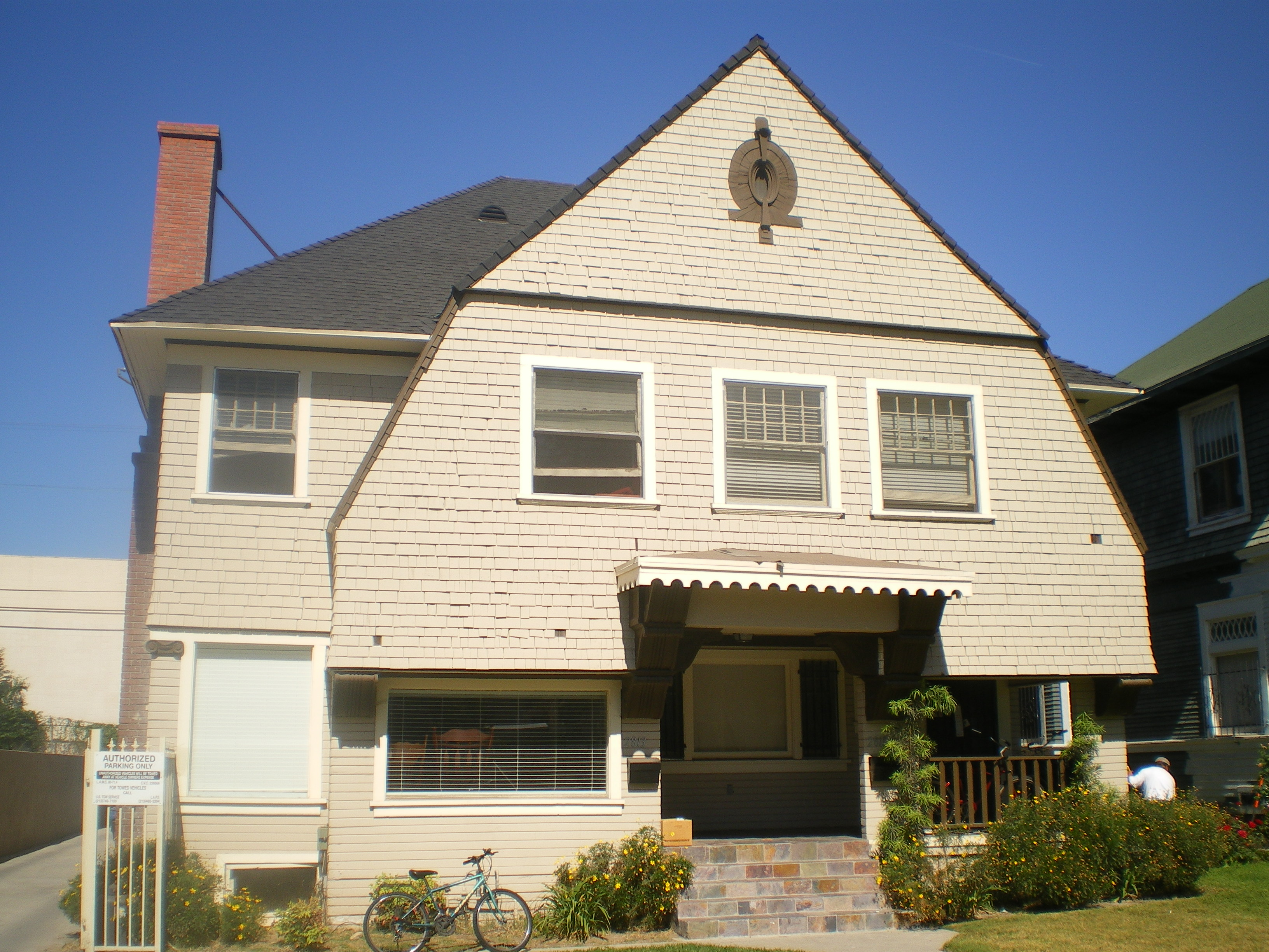 House at 2813 South Menlo Avenue, Los Angeles, California (South Menlo Avenue Historic District)